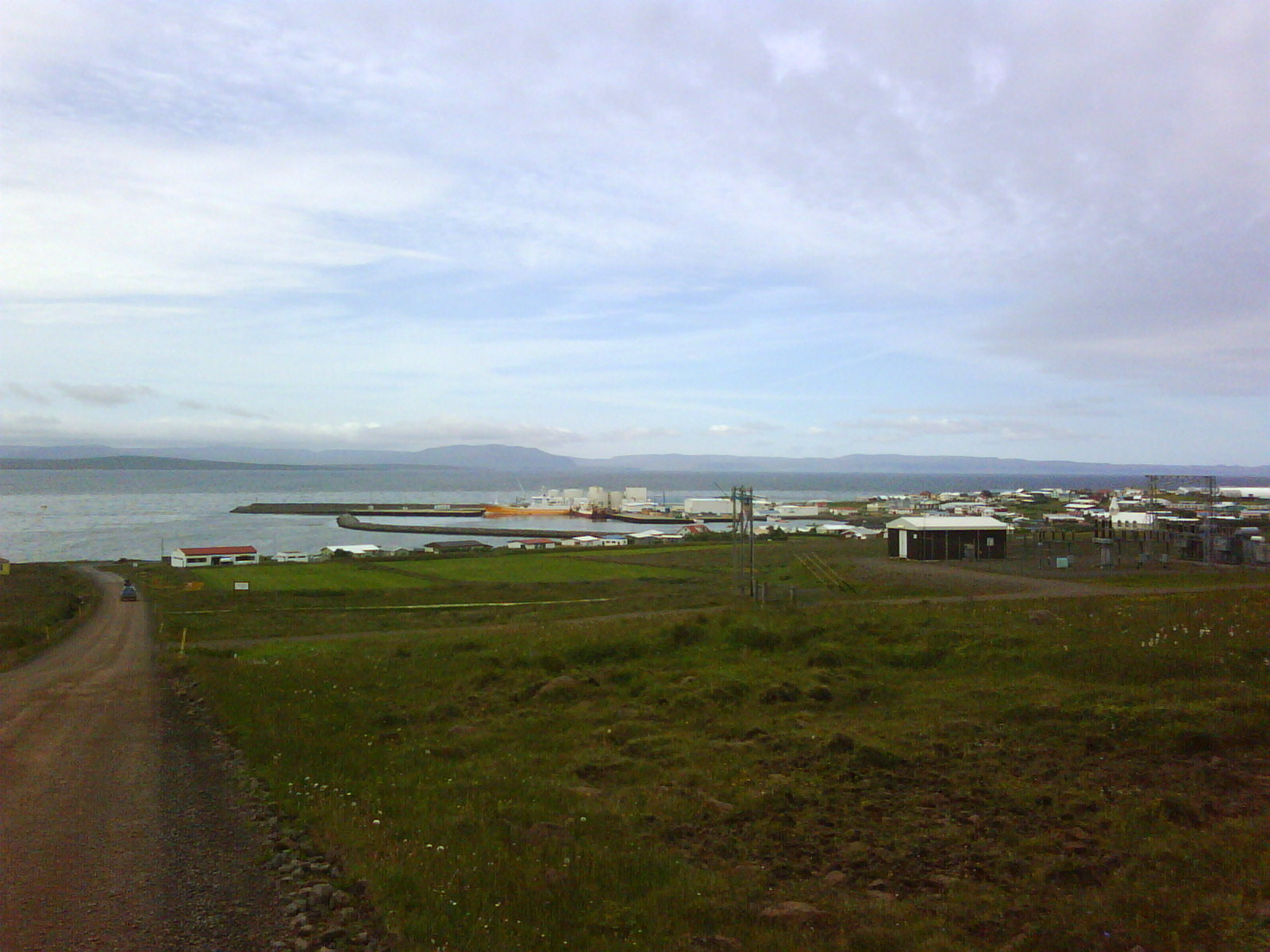 Þórshöfn